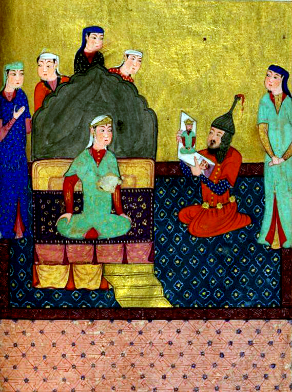 Muhammad Musá al-Mudhahhib - Alexander the Great Admires His Portrait Made by Nushabah - Walters W606278BAzərbaycanca: Nüşabənin sifarişi ilə çəkilmiş portretin Makedoniyalı İskəndərə təqdim edilməsi